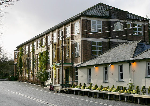 Cambrian Woollen Mills, Llanwrtyd Wells The Cambrian Woollen Mills on the A483, after a heavy rain storm.